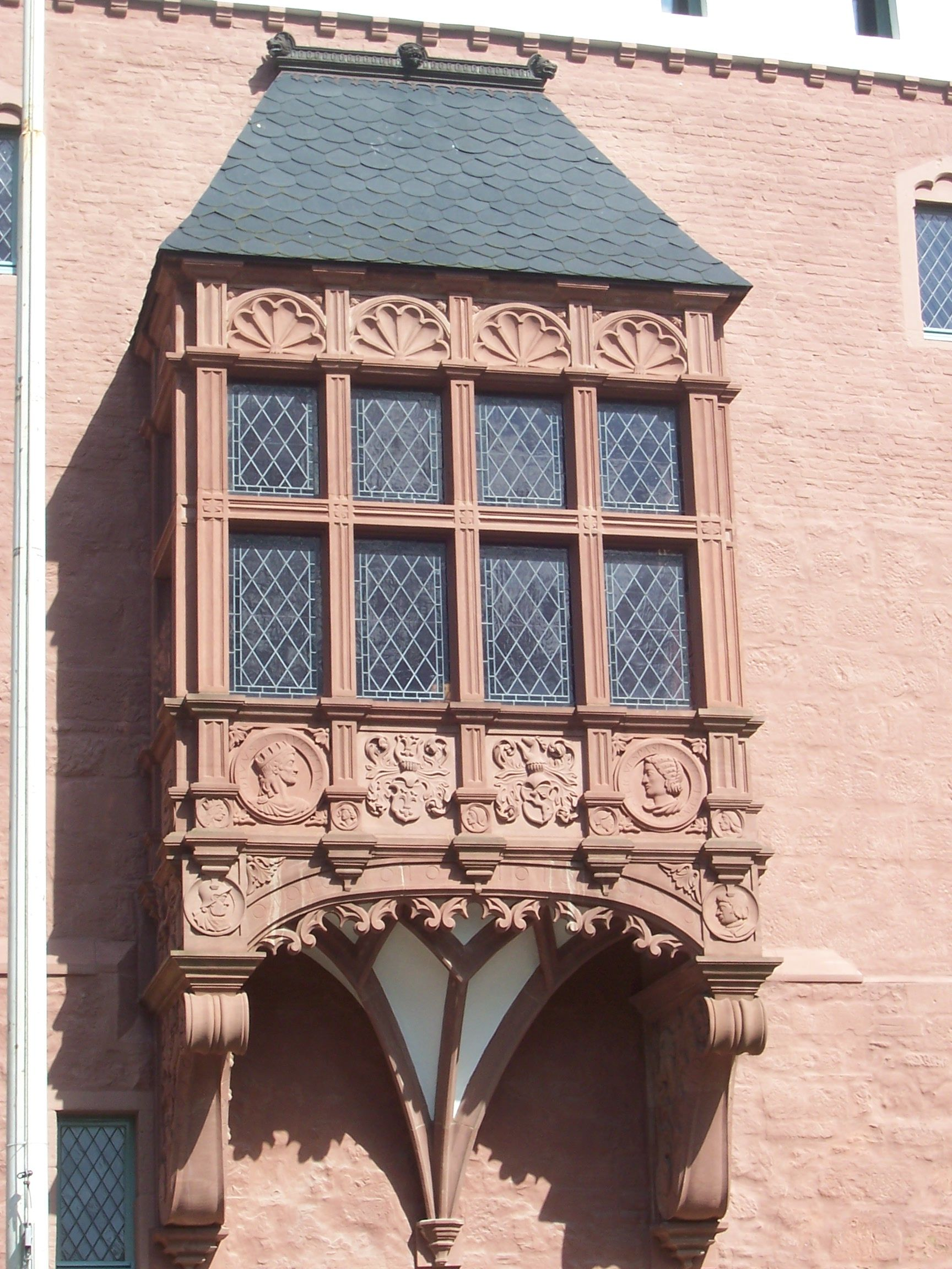 the bay window of Schloss Burgau, a castle in Düren-Niederau